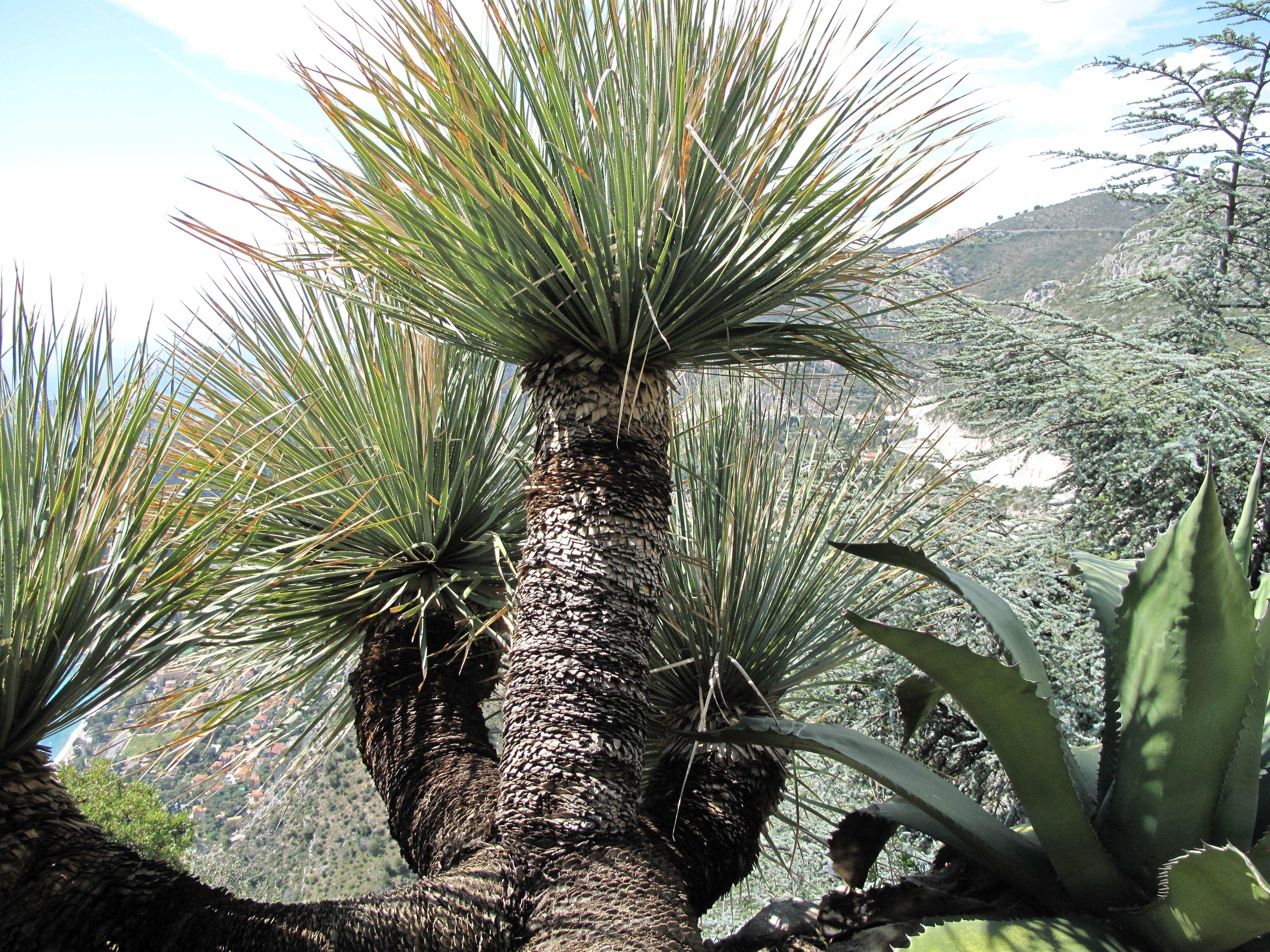 Dasylirion acrotrichum in the botanical garden of Eze, France